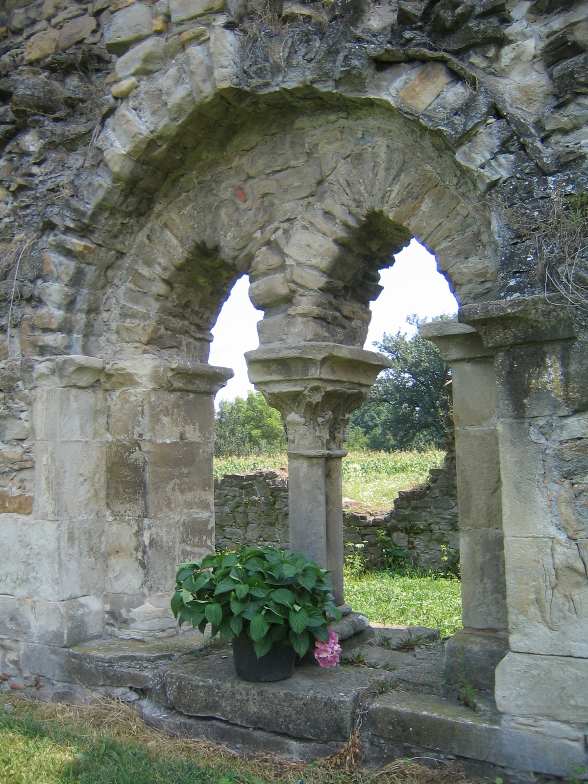 Detail from the ruins of the Carta Monastery complex, Transilvania, Romania